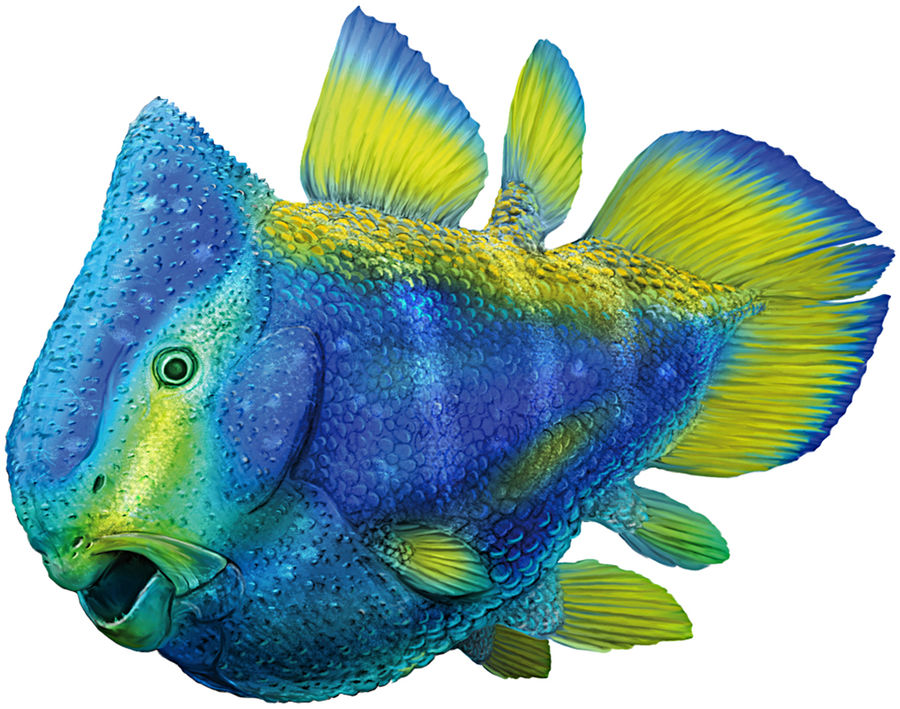 Fig. 4. Reconstruction of the living coelacanth Foreyia maxkuhni gen. et sp. nov.